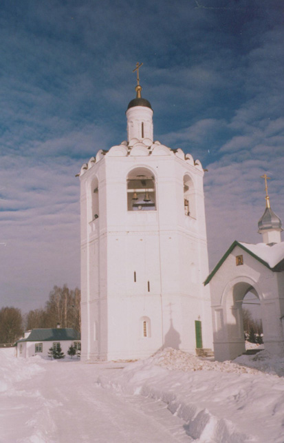 Troitse-Boldin Monastery. Bell_Tower